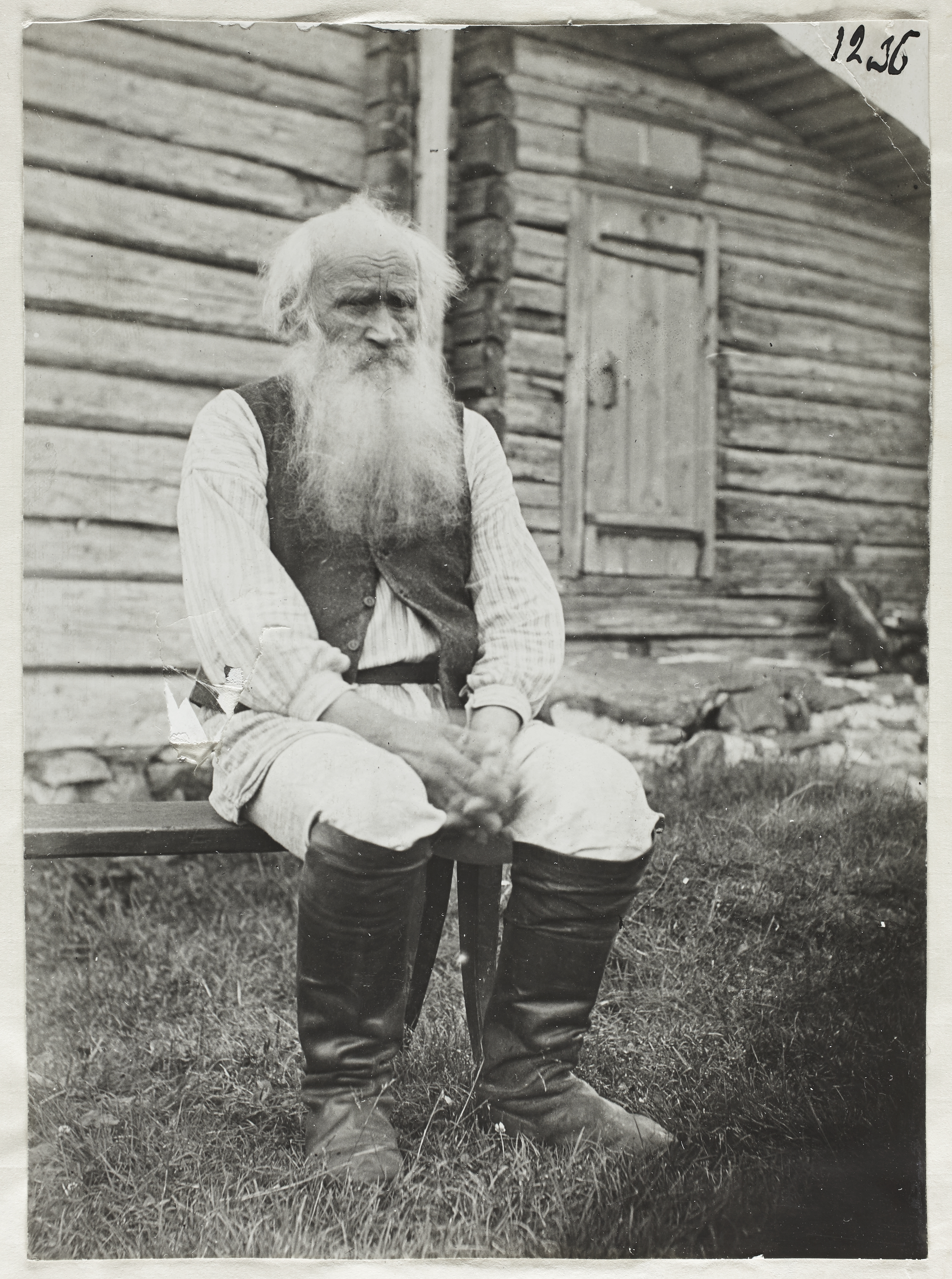 Photograph of the Finnish oral poet Pedri Shemeikka (1825–1915).